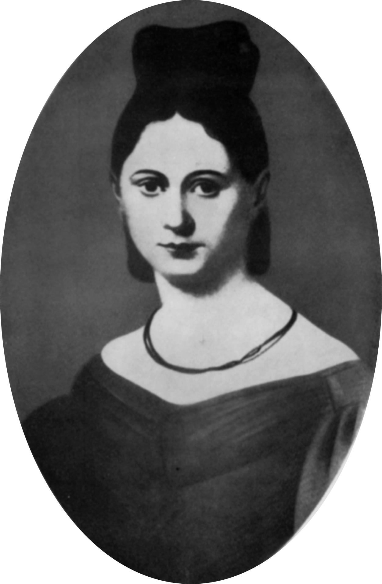 painting of young Jenny v. Westphalen (later Marx)